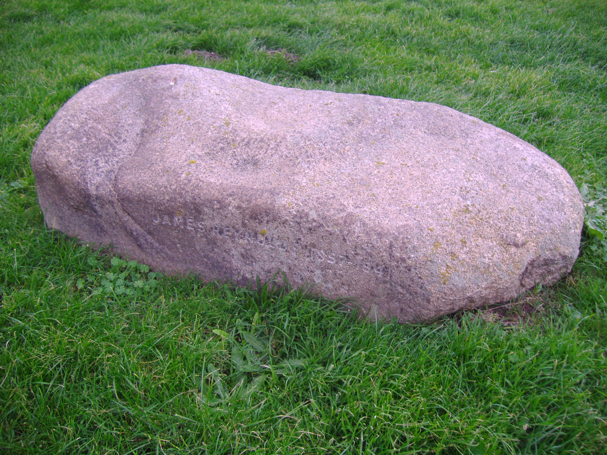 An original Digital Photograph of James Renolds Headstone in Beeston Regis Church